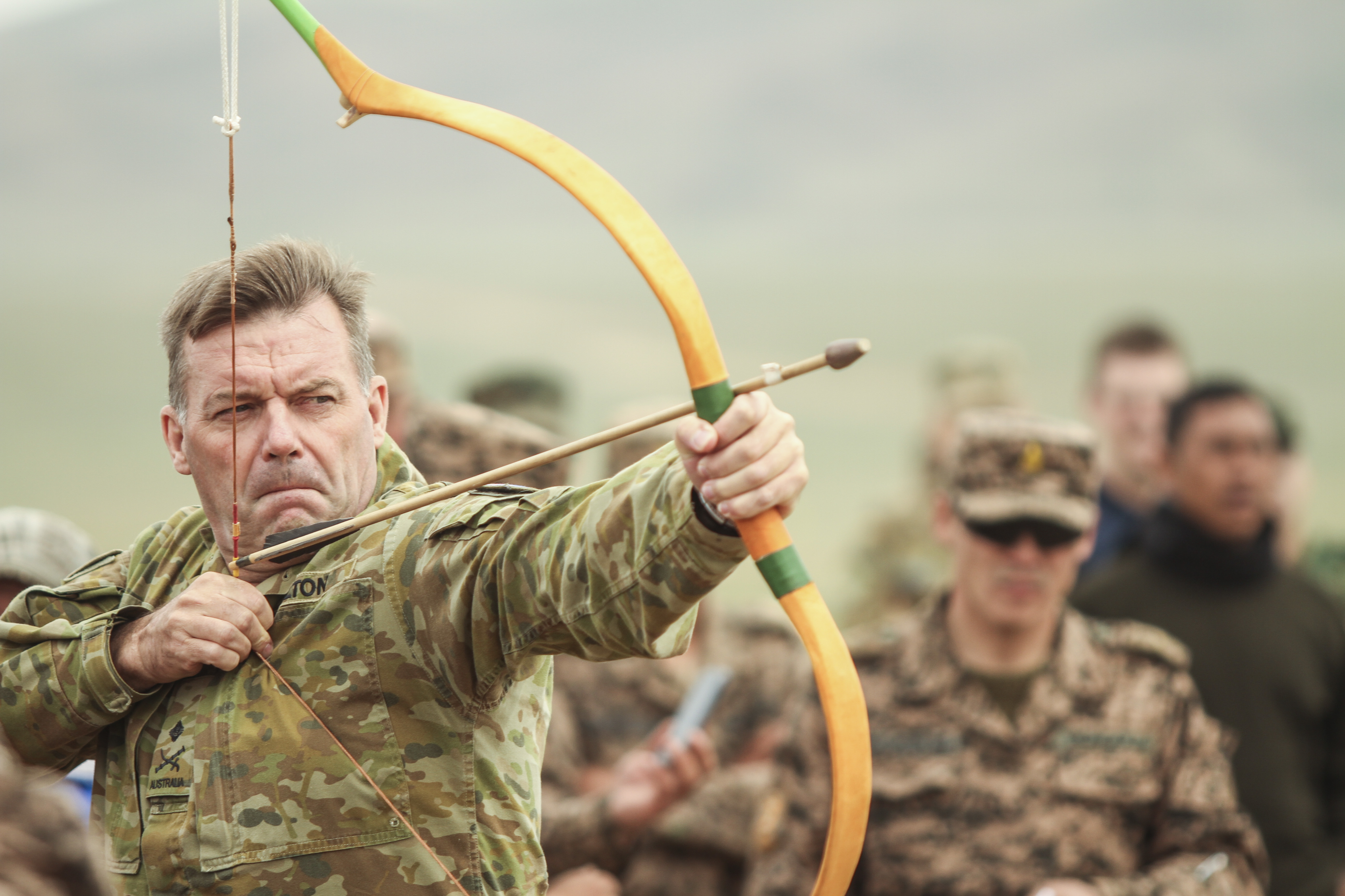 160603-N-WI365-099 ULAANBAATAR, Mongolia (June 03, 2016) – Maj. Gen. Gregory Bilton, Deputy Commanding General for Operations of U.S. Army Pacific, participates in the archery skills event during a Naadam festival at Five Hills Training Area as part of Khaan Quest 2016. The festival featured three sporting events - wrestling, archery and horseback-riding. The Naadam festival is the last official event for participants to experience Mongolian culture prior to the closing ceremony on June 4. Khaan Quest 2016 is an annual, multinational peacekeeping operations exercise hosted by the Mongolian Armed Forces, co-sponsored by U.S. Pacific Command, and supported by U.S. Army Pacific and U.S. Marine Corps Forces, Pacific. Khaan Quest, in its 14th iteration, is the capstone exercise for this year’s Global Peace Operations Initiative program. The exercise focuses on training activities to enhance international interoperability, develop peacekeeping capabilities, build to mil-to-mil relationships, and enhance military readiness. (U.S. Navy photo by Mass Communication Specialist 3rd Class Markus Castaneda/RELEASED) Unit: American Forces Network Pacific